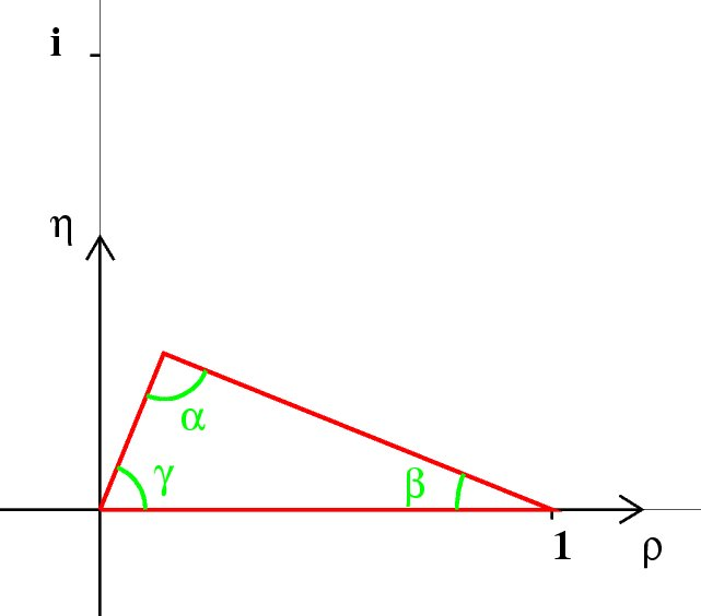 Unitarity triangle of the Cabibbo-Kobayashi-Maskawa matrix, that parameterizes the electroweak decays of the quarks.